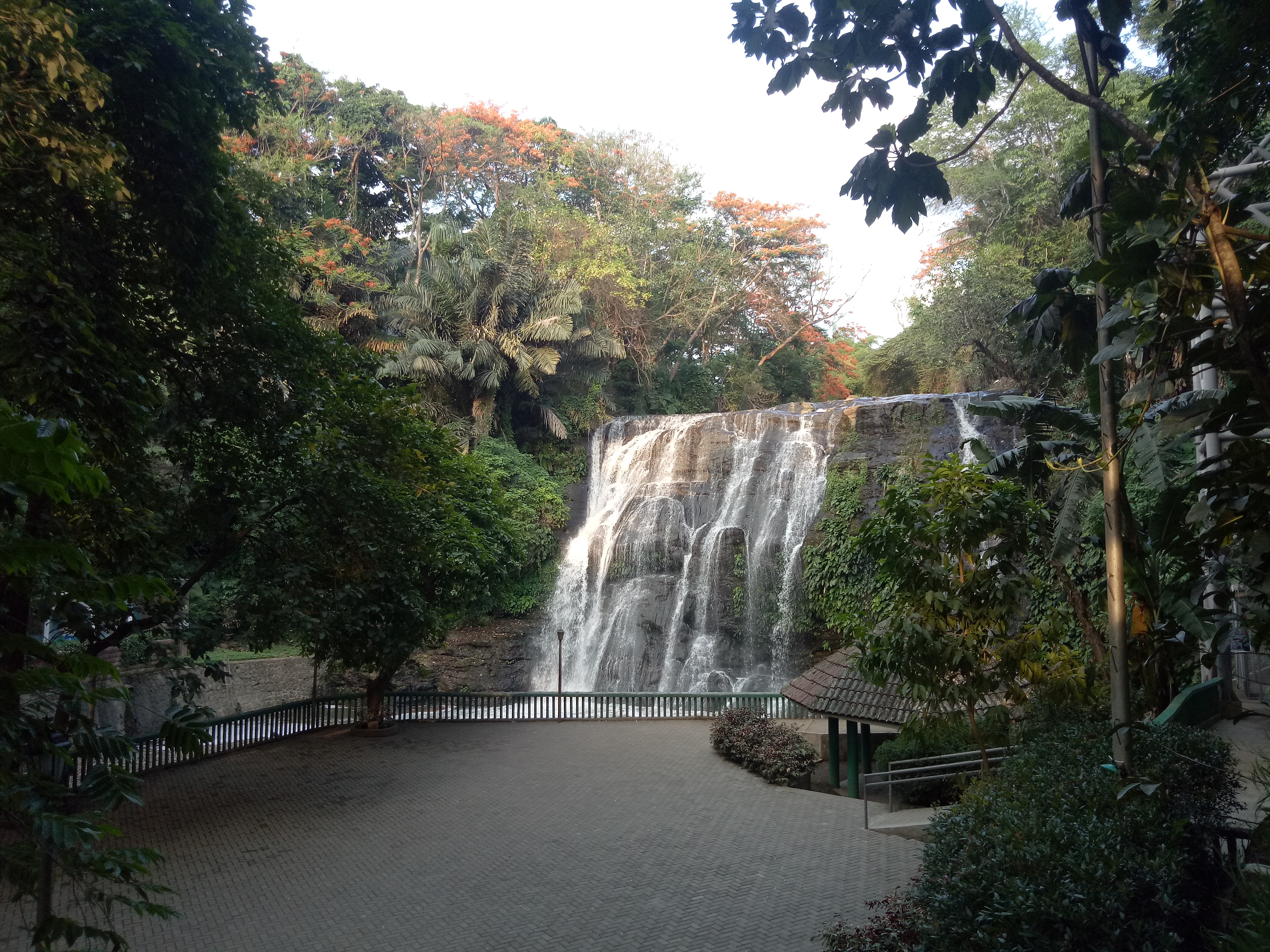 Hinulugang Taktak is a waterfall located in Rizal, Philippines. The area, initially 0.8 hectares, was expanded to 3.2 hectares upon its designation as a national park. Uploaded as entry to Wiki Loves Earth (2018). Coordinates: 14°35′49″N 121°09′54″E